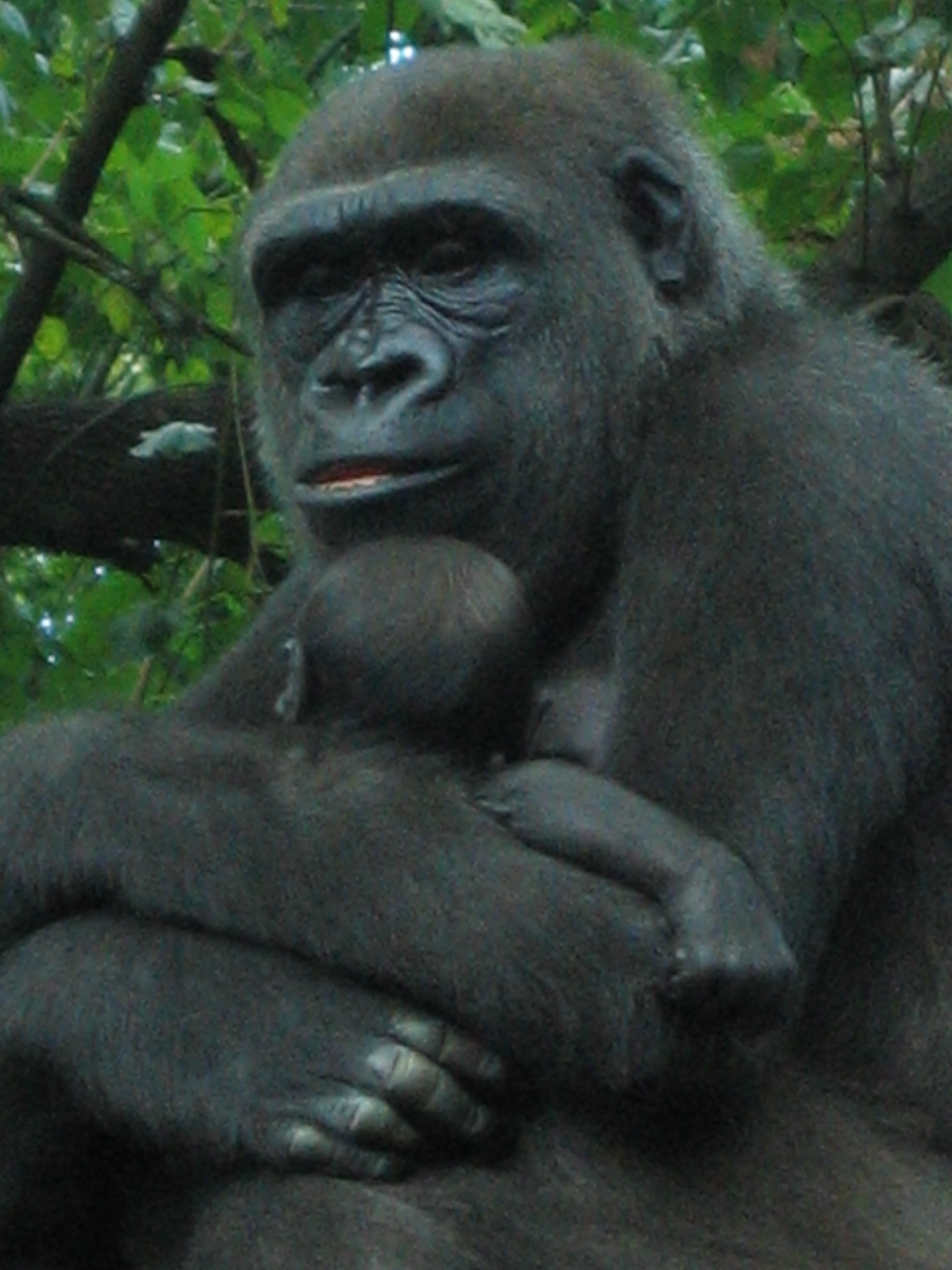 Western Lowland Gorilla (Gorilla gorilla gorilla), with young. Bronx Zoo, New York City.